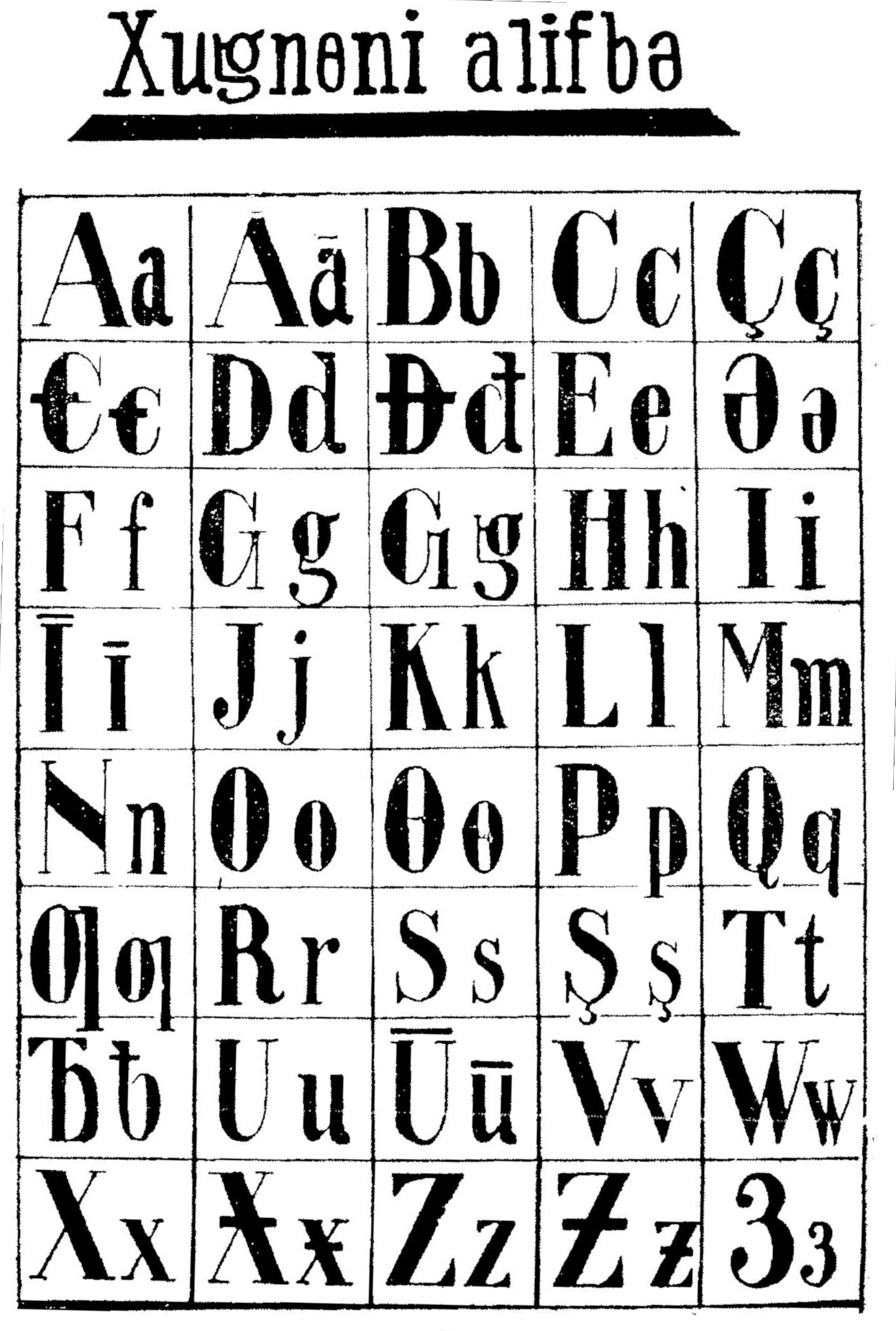 Shugni alphabet